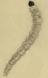 Stainton’s Natural History of the Tineina (1855–1873): Monochroa arundinetella